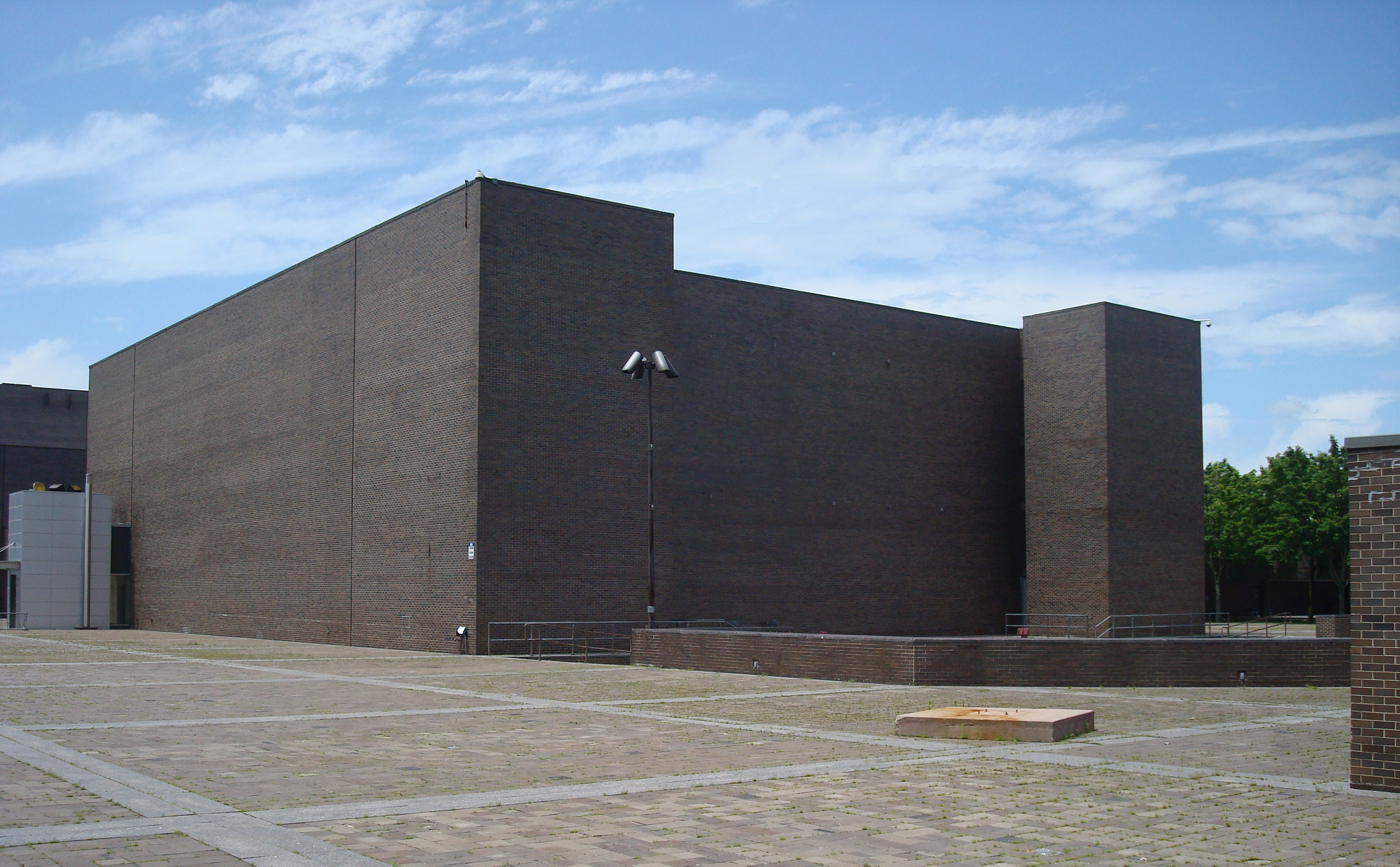 A view of the Performing Arts Center from the main plaza.